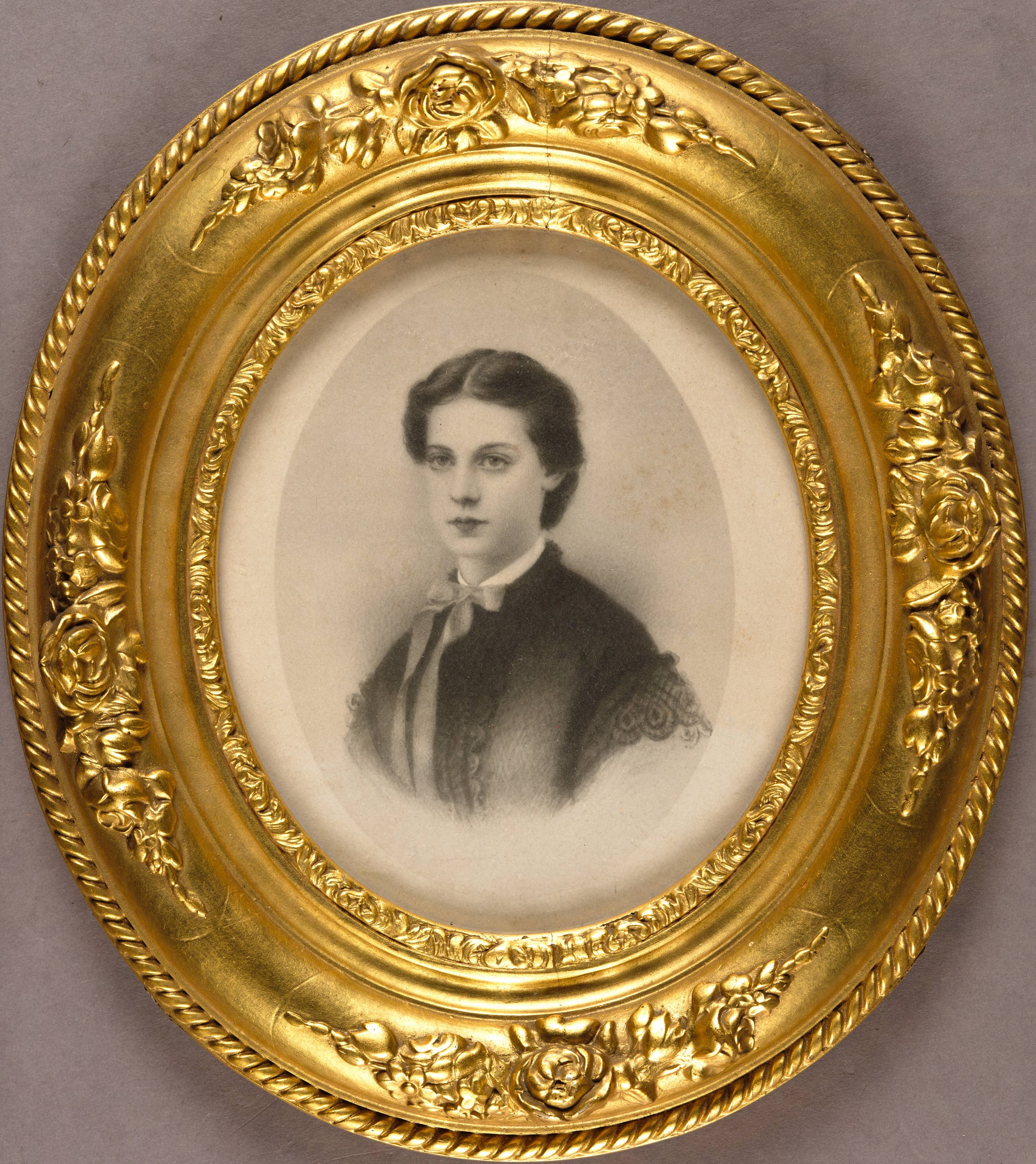 Arabella Duval Huntington (c.1850-1924) — once known as the richest woman in America, and co-fouder, with Henry E. Huntington, of the trust to establish the Huntington Library, Art Collections, and Gardens in San Marino, California. The second wife of American railway tycoon Collis P. Huntington (m. 1884-1900), and then the second wife of Henry E. Huntington (m. 1913-1924).